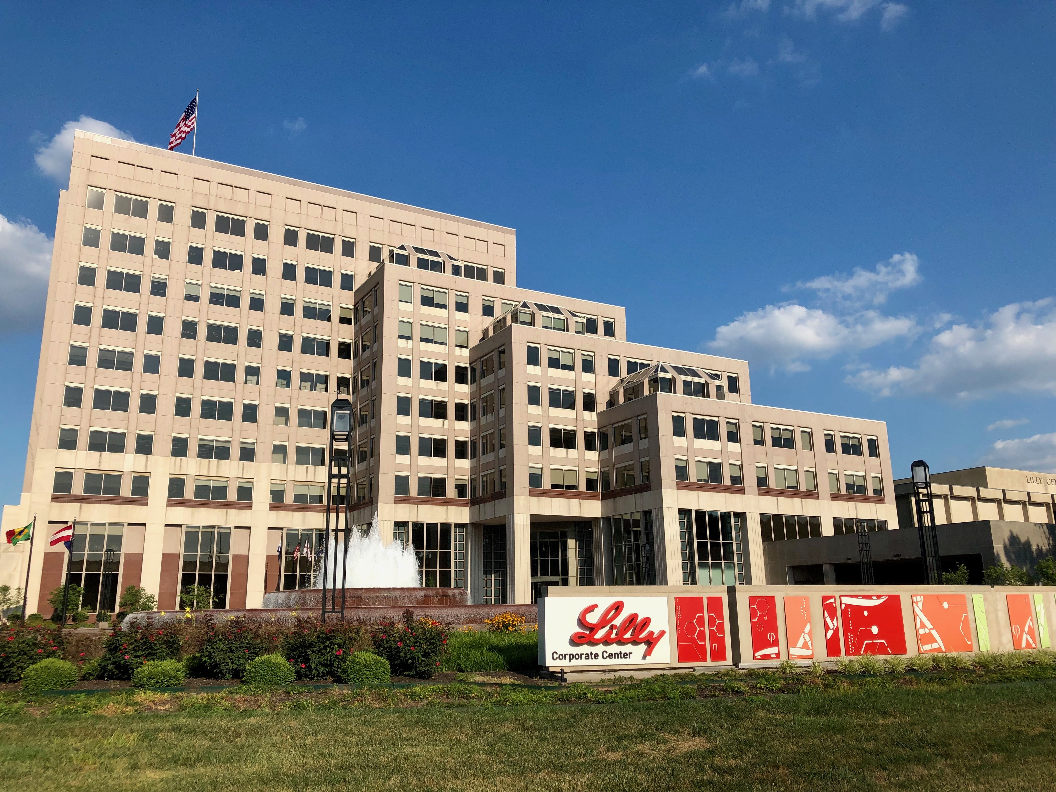 This photo was captured at the intersection of E. McCarty St. and S. Delaware St., Indianapolis, Indiana, USA. The main building of the corporate center campus and fountain is shown in early-evening sunlight.